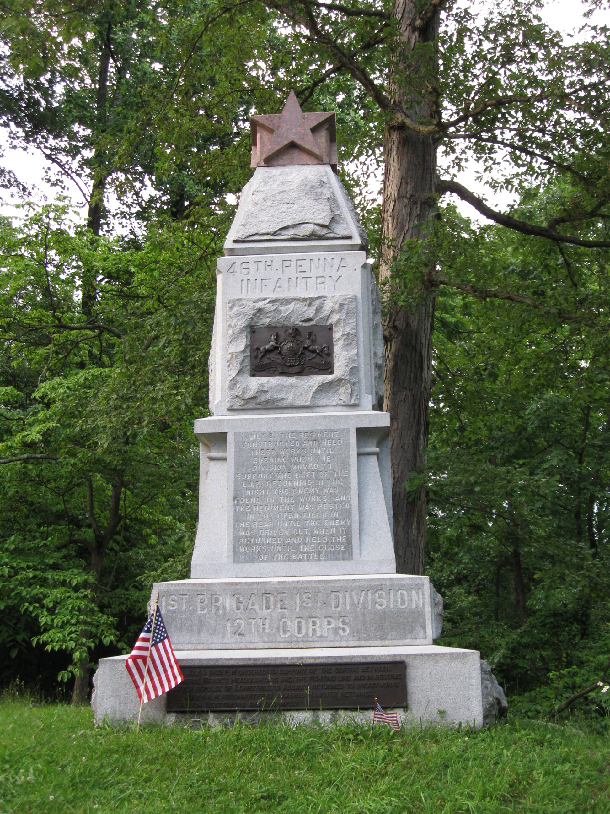 46th Pennsylvania Monument on Culp's Hill at Gettysburg National Military Park. Photo by M. Stewart, 6/3/12.